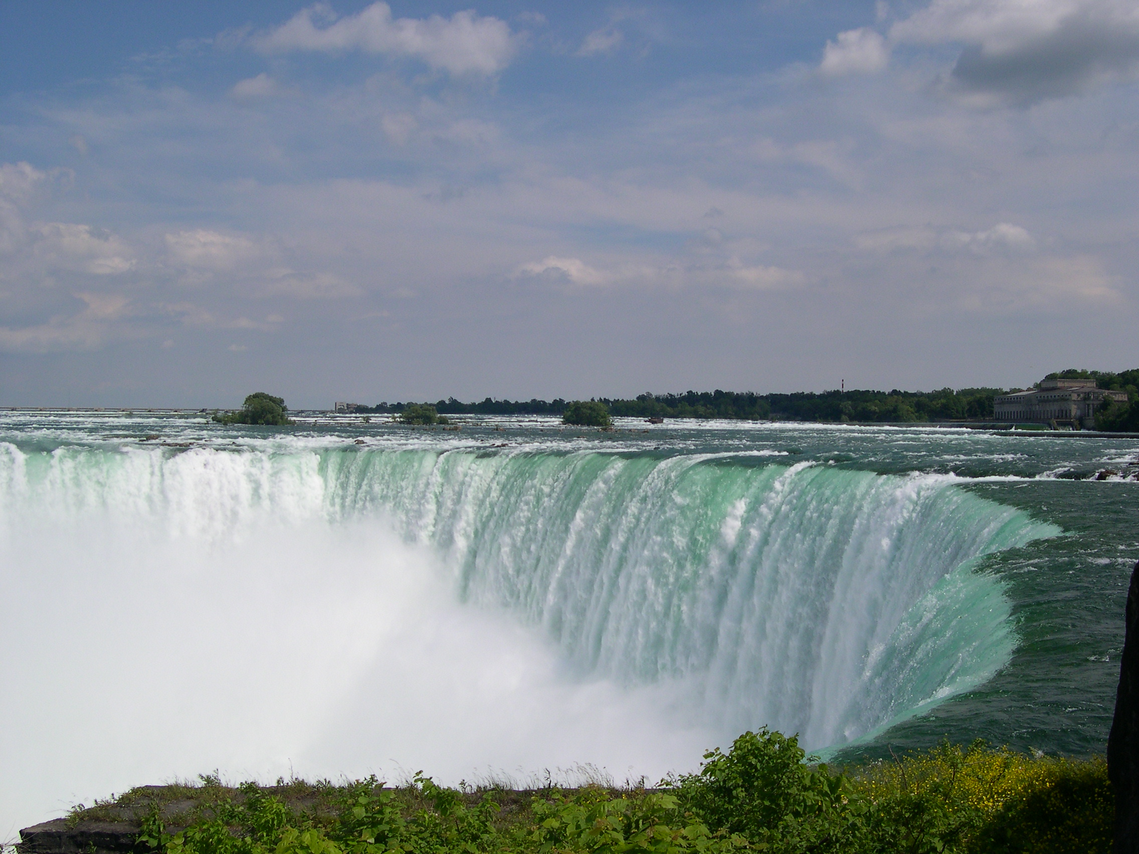 Niagara FallsJune 28 - July 16, 2003